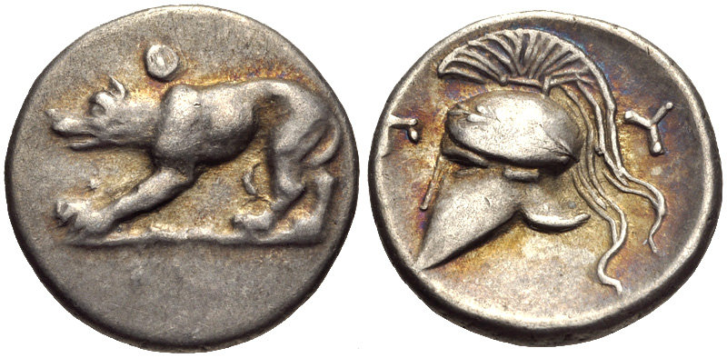 Argos. 270-260/50 BC. Silver Trihemiobol (12mm, 1.17 g). Wolf at bay left; Θ above / Crested Corinthian helmet left; Π-Y across field.